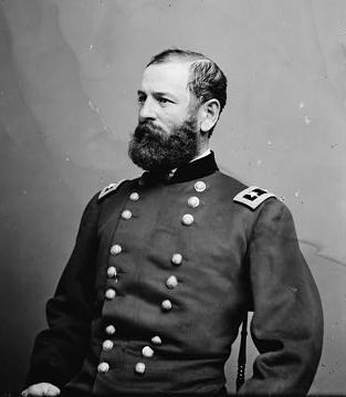 Photograph shows Major General Fitz-John Porter, half-length portrait, facing left, 1 negative: glass, wet collodion. Civil War glass negative collection, Library of Congress Prints and Photographs Division